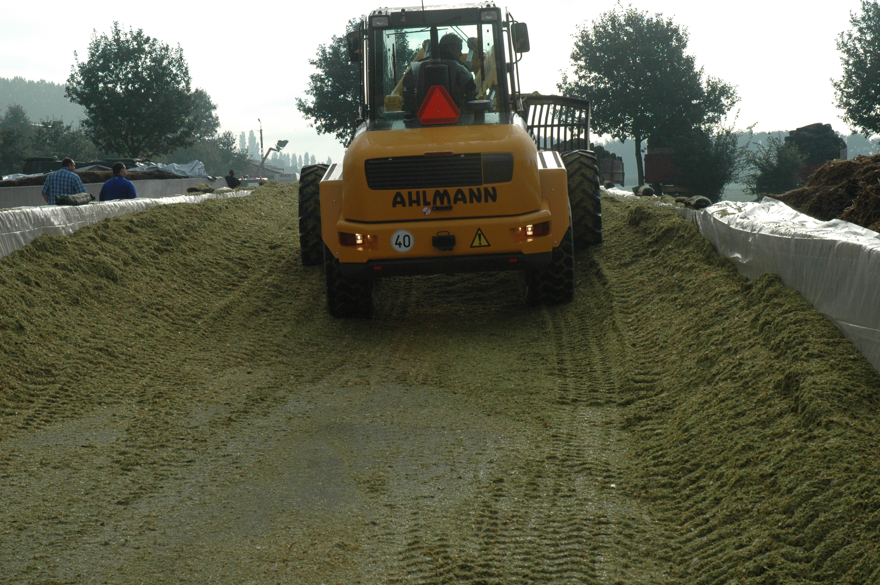 Maize silage, Werktuigendagen 2007